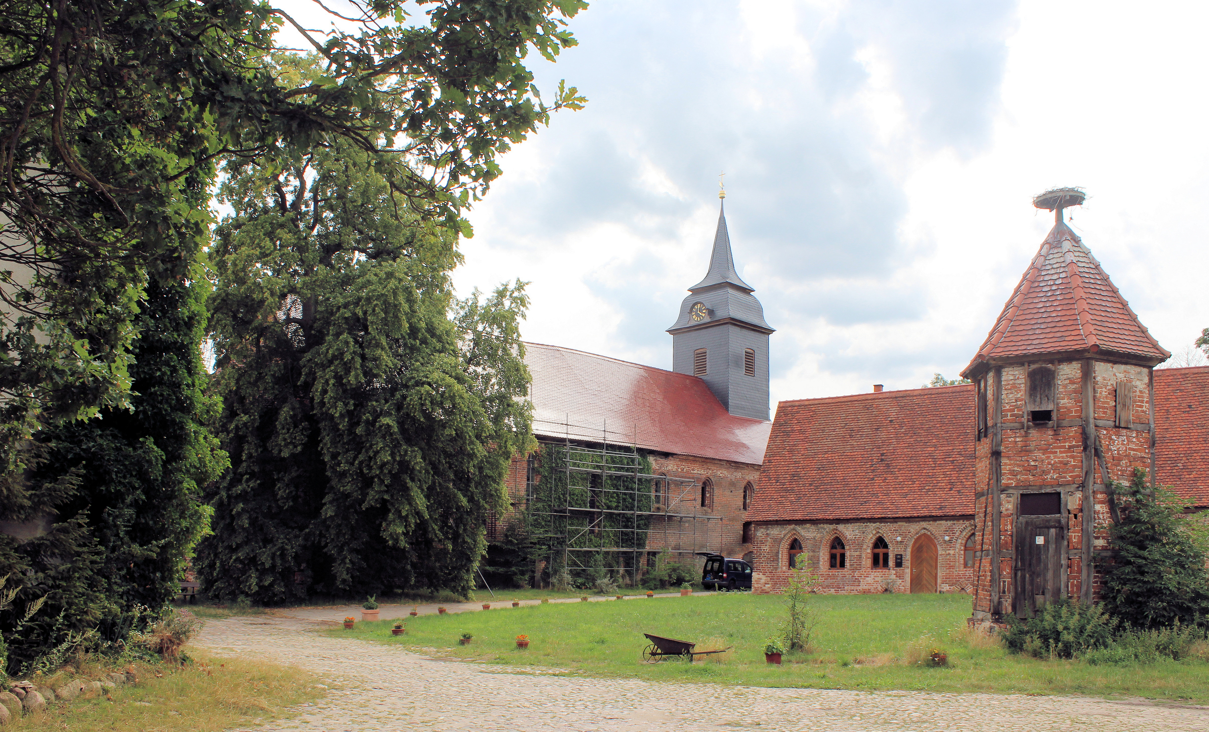 Dambeck (Salzwedel), the monastery